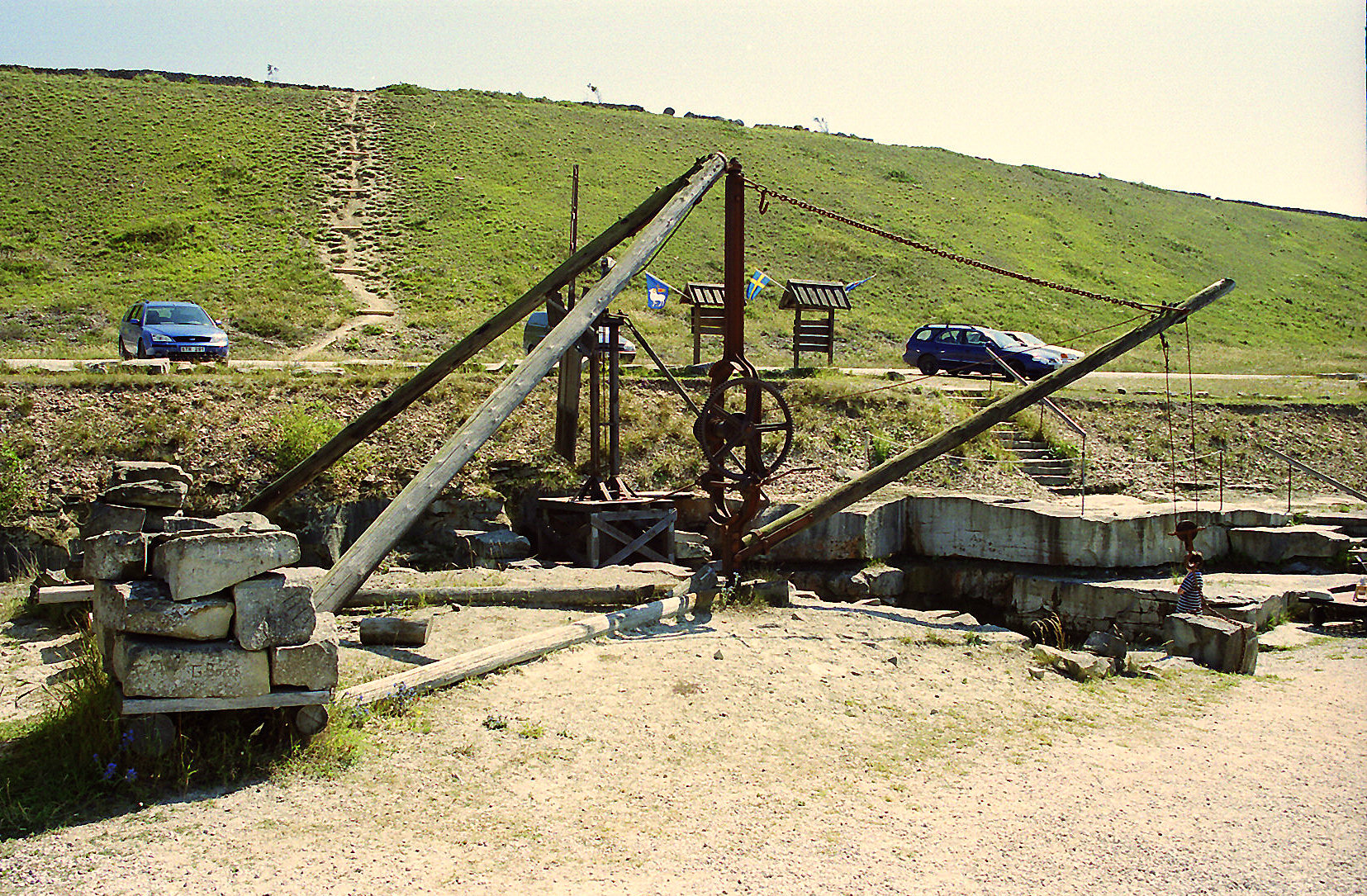 Kettelvik stone museum, Sundre parish, Gotland